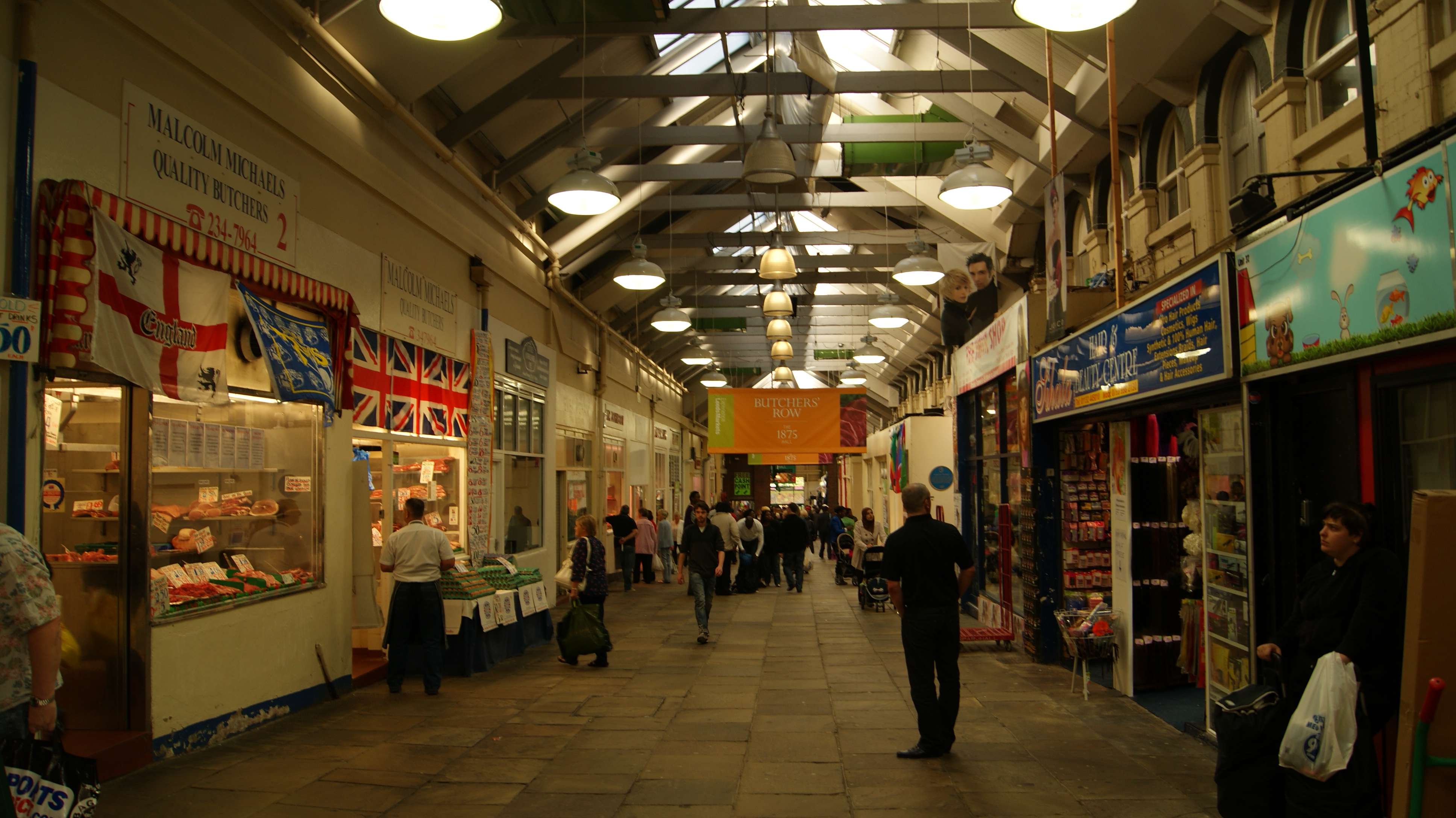 Butchers' Row, 1875 Hall, Kirkgate Market, Leeds, West Yorkshire. Taken on the afternoon of Saturday the 22nd of September 2012.